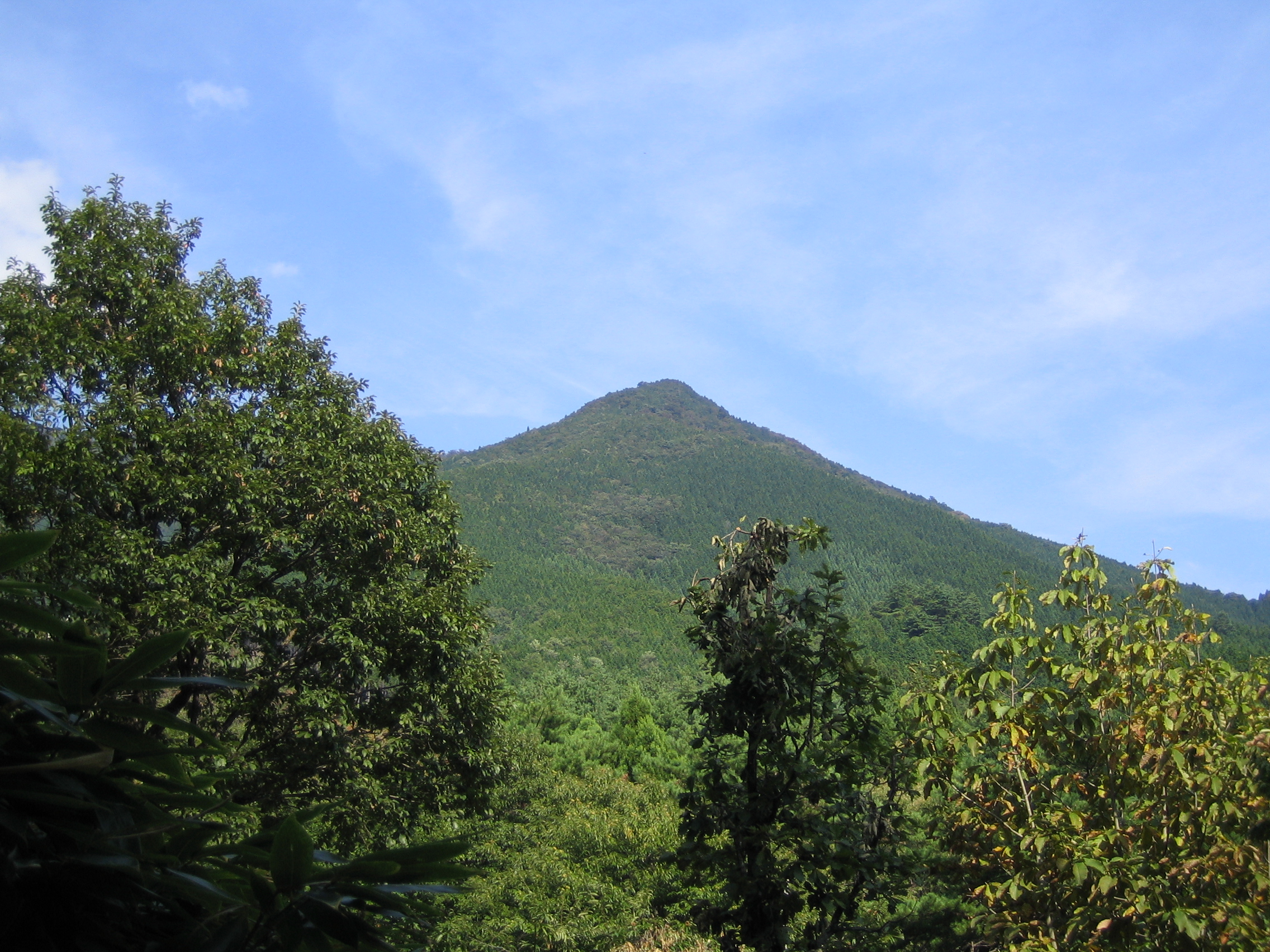 Mount Mimuro from south, Hoshu, Japan.